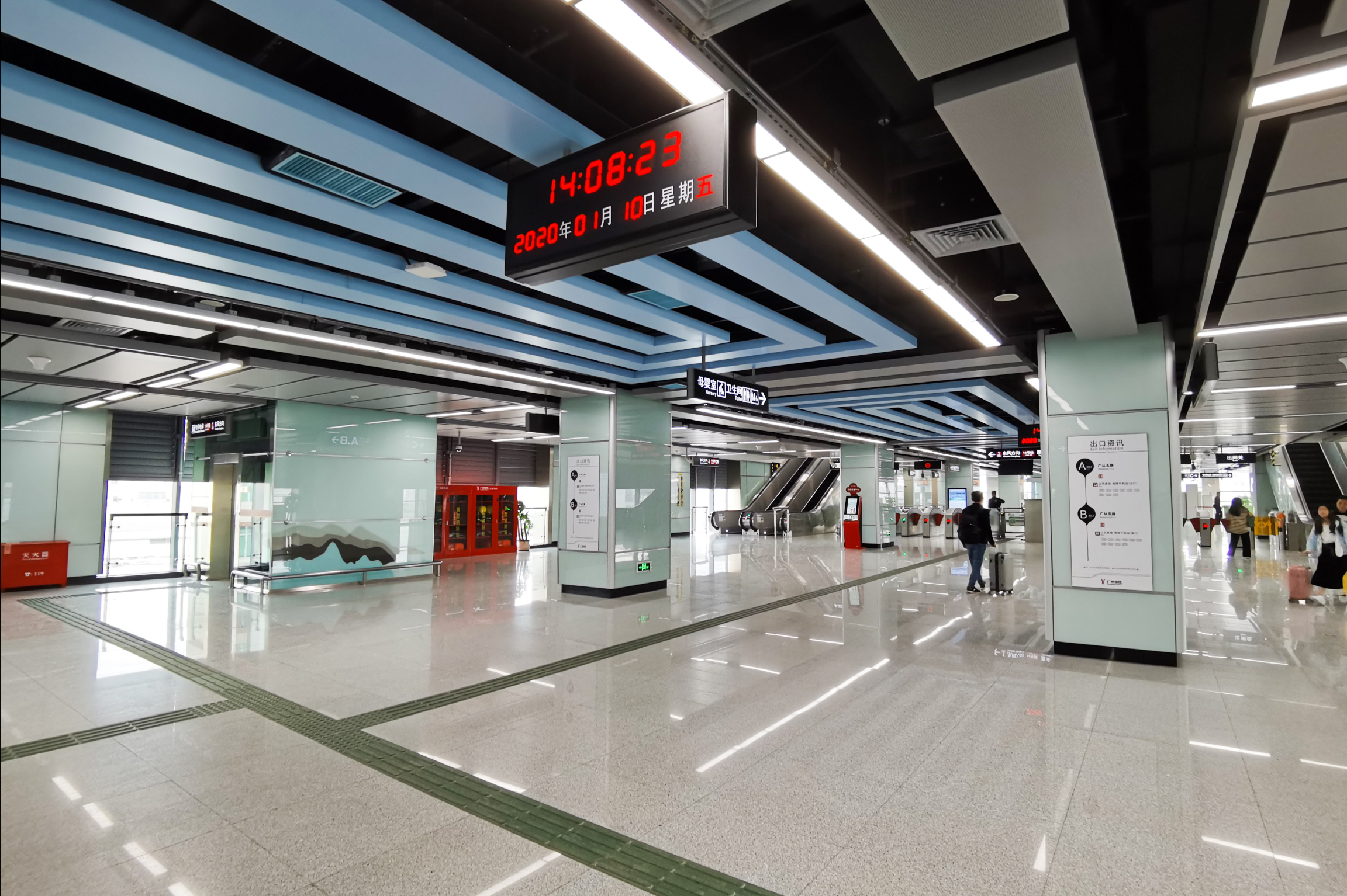 广州地铁竹料站